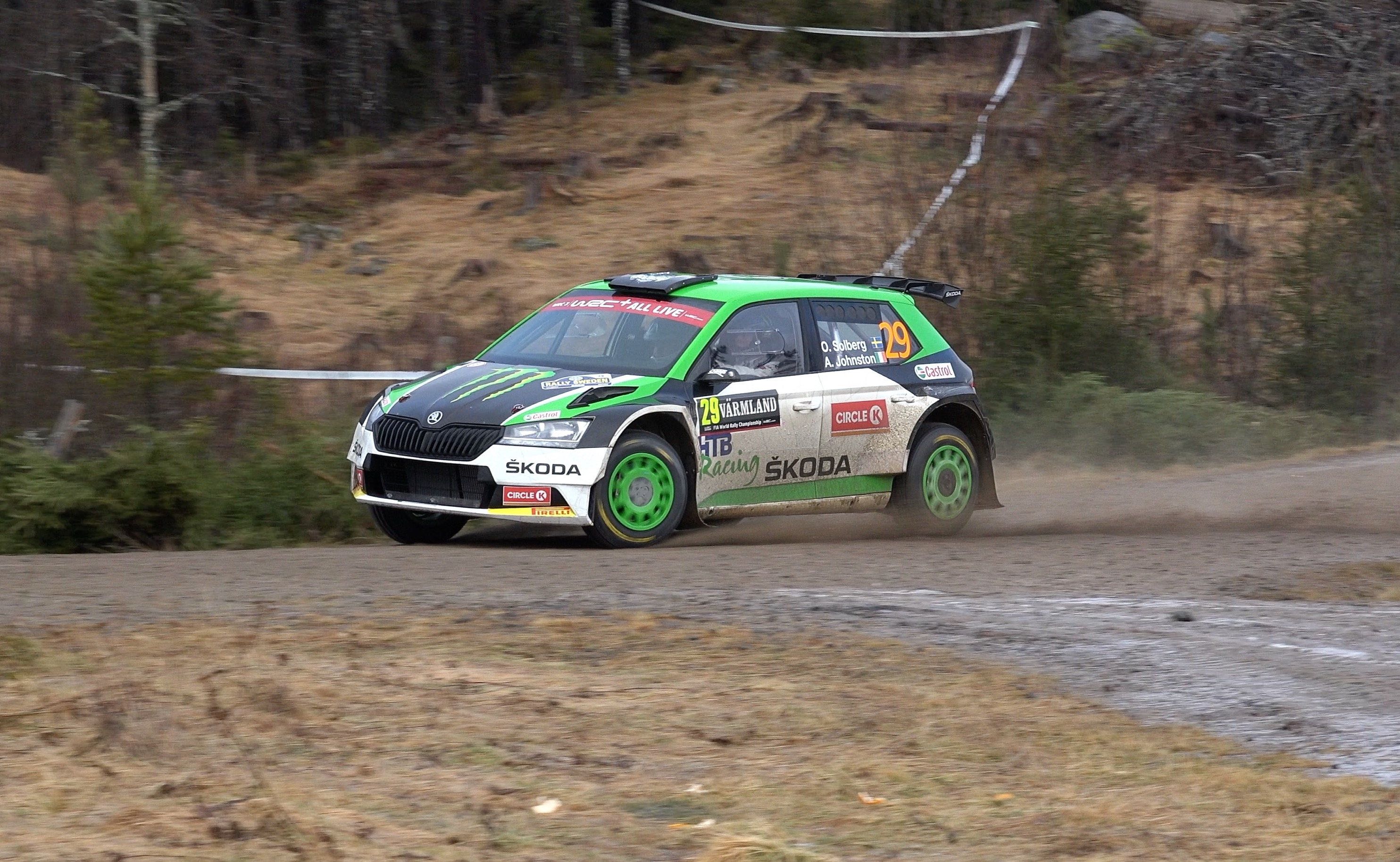 Oliver Solberg in Rally Sweden 2020.